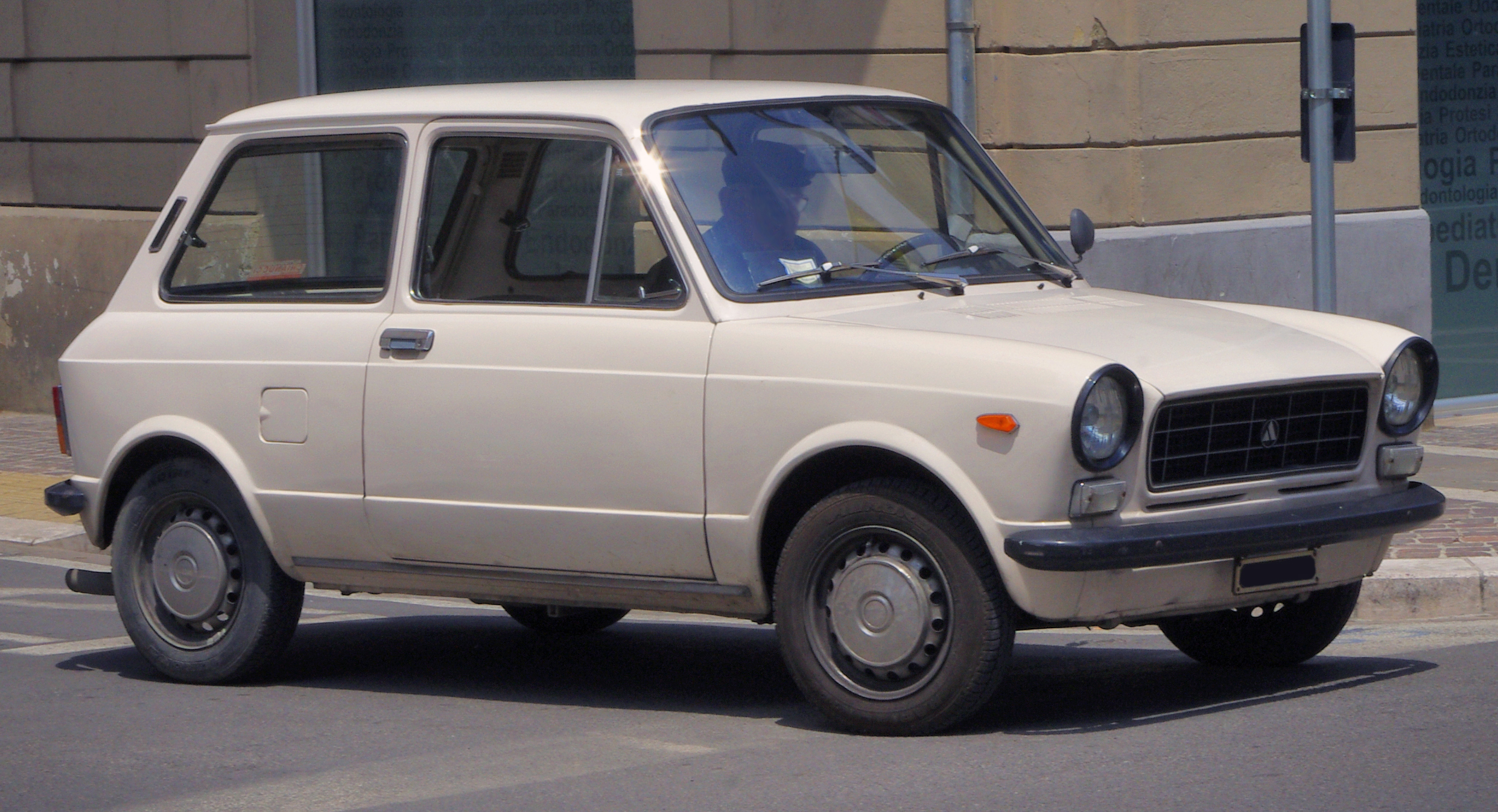 Autobianchi A112 'Normale', second series (1973.03-early 1975) seen in Arezzo